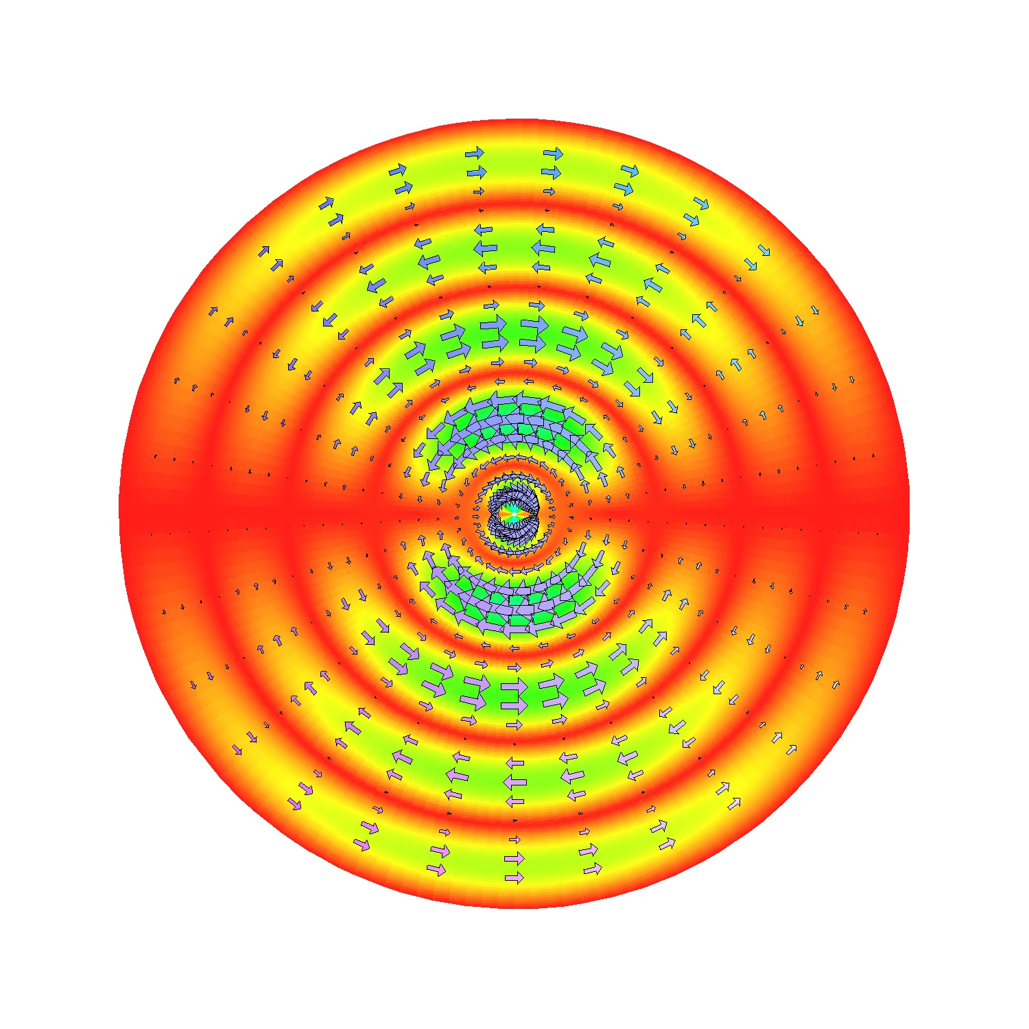 Plot of E and H fields on the TEnl mode defined by n and l.